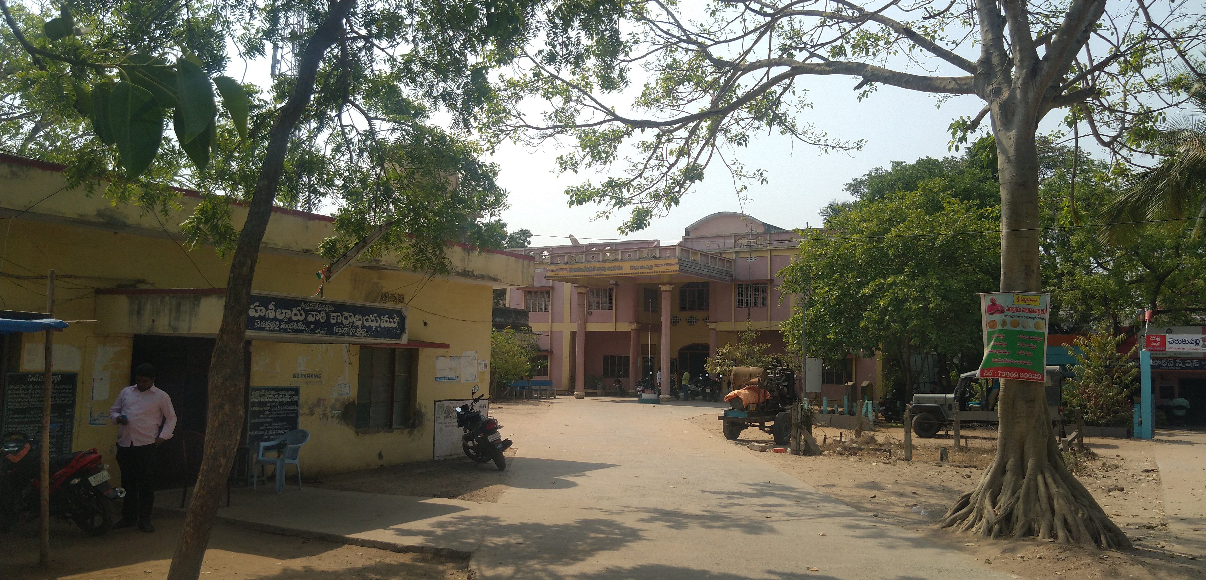 The Mandalam-level Government offices of Cherukupalli manadalam are located at one location in Cherukupalli.